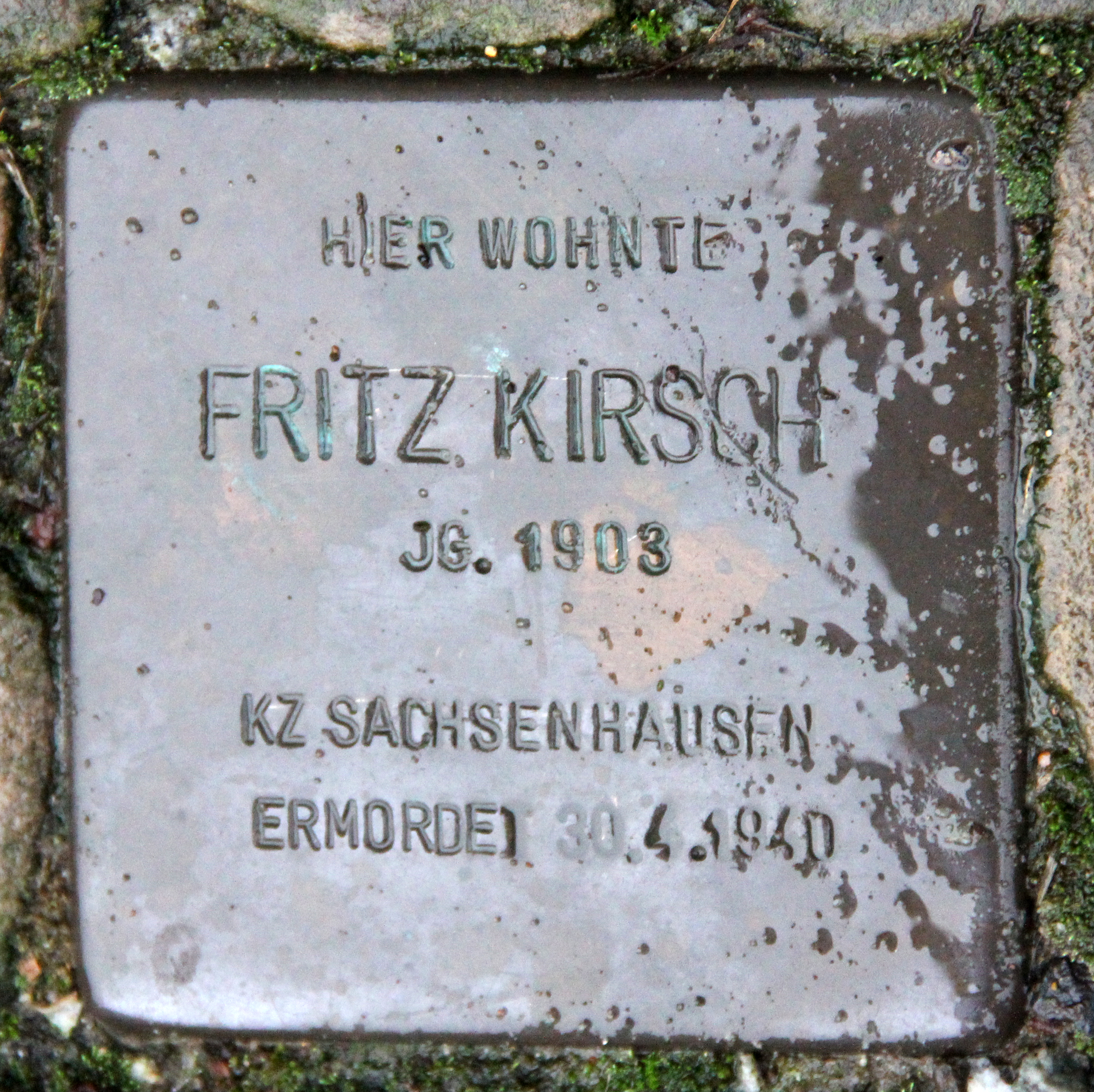 "Stolperstein" (stumbling block), Fritz Kirsch, Wassermannstraße 69, Berlin-Adlershof, Germany